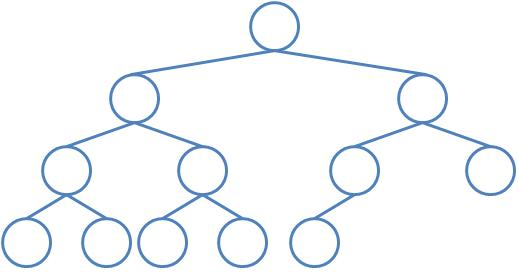 complete binary tree